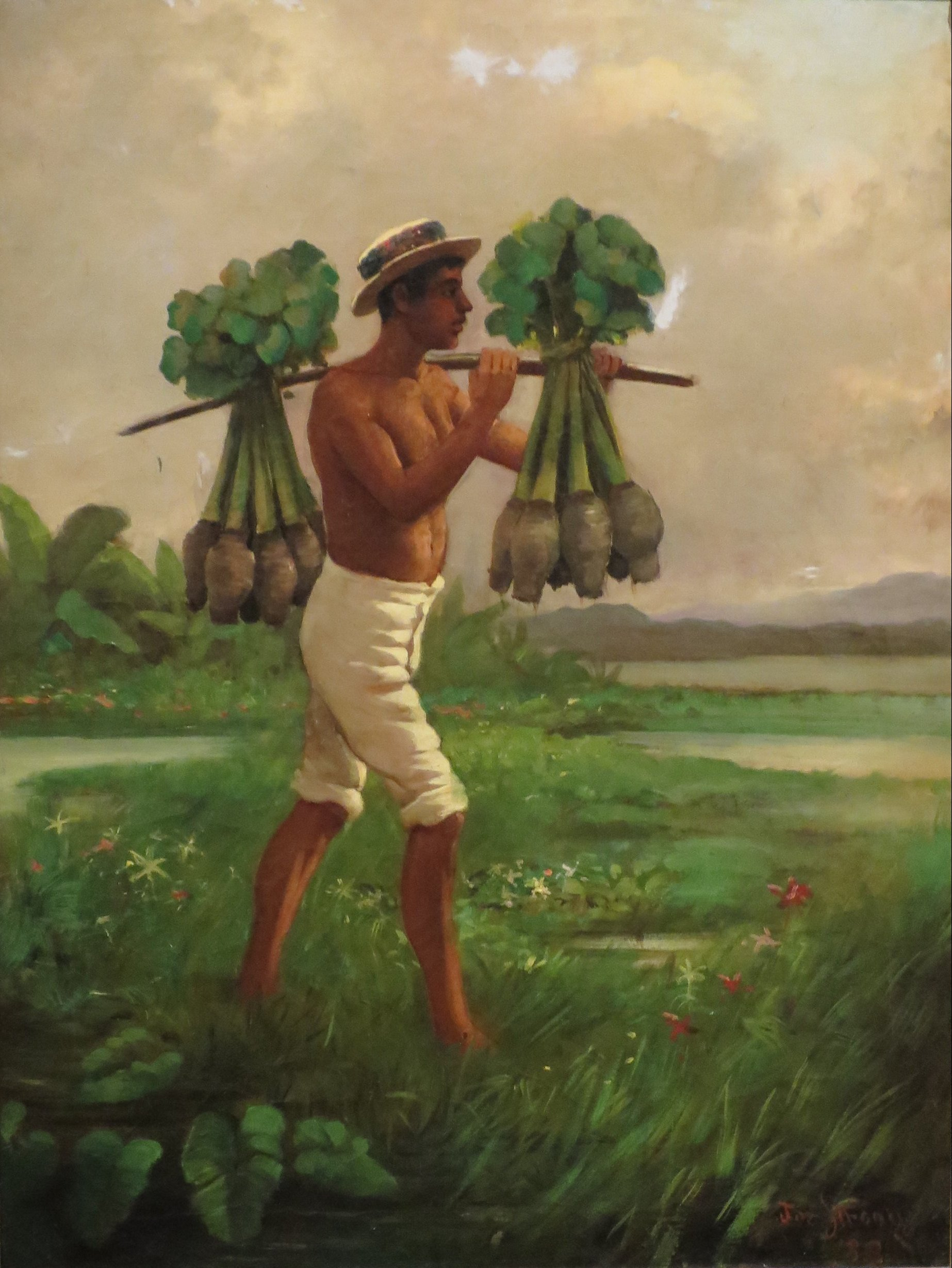 Man with a Yoke Carrying Taro by Joseph Strong, oil on canvas board, 1880, Honolulu Museum of Art, accession 12692.1